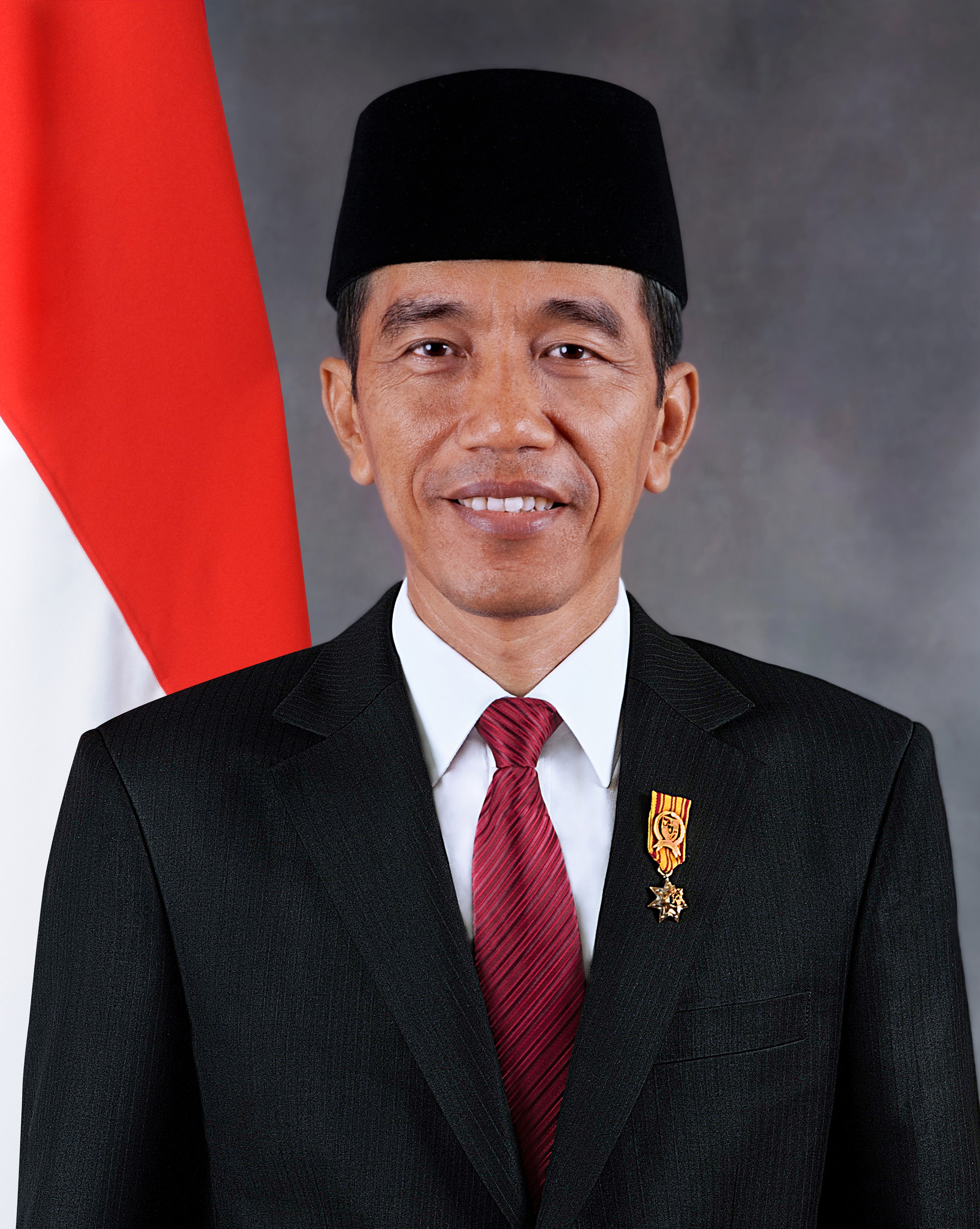 Joko Widodo official potrait, provided by the Government of Indonesia